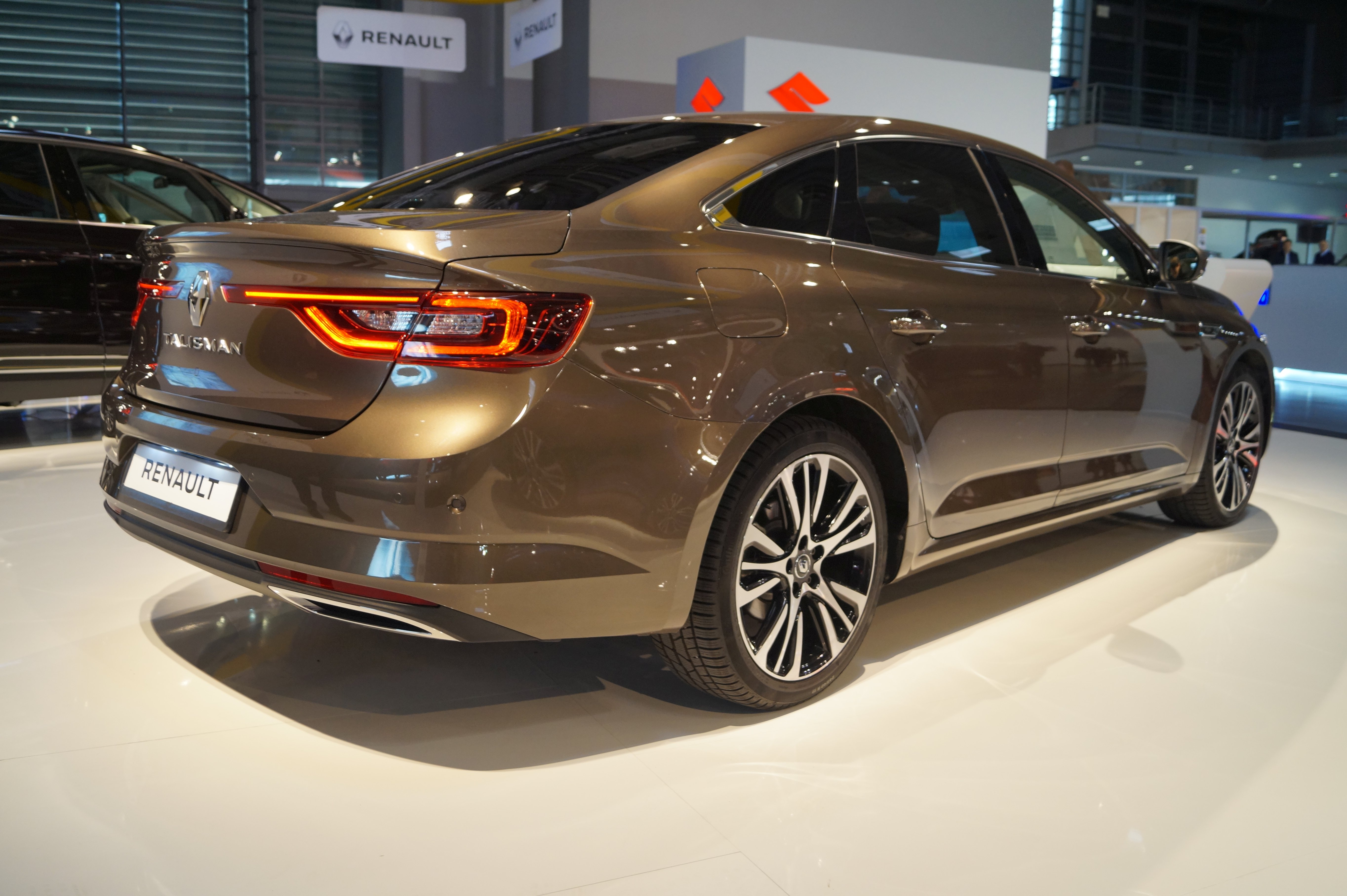 The making of this document was supported by Wikimedia Polska Association, within Wikigrant no. WG 2016-10. Tył Renault Talisman sedan na Motor Show Poznań 2016